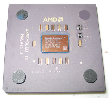 AMD Athlon Thunderbird-core 850 MHz.